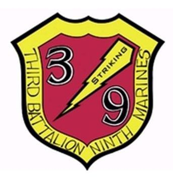 Logo for 3rd Battalion 9th Marines